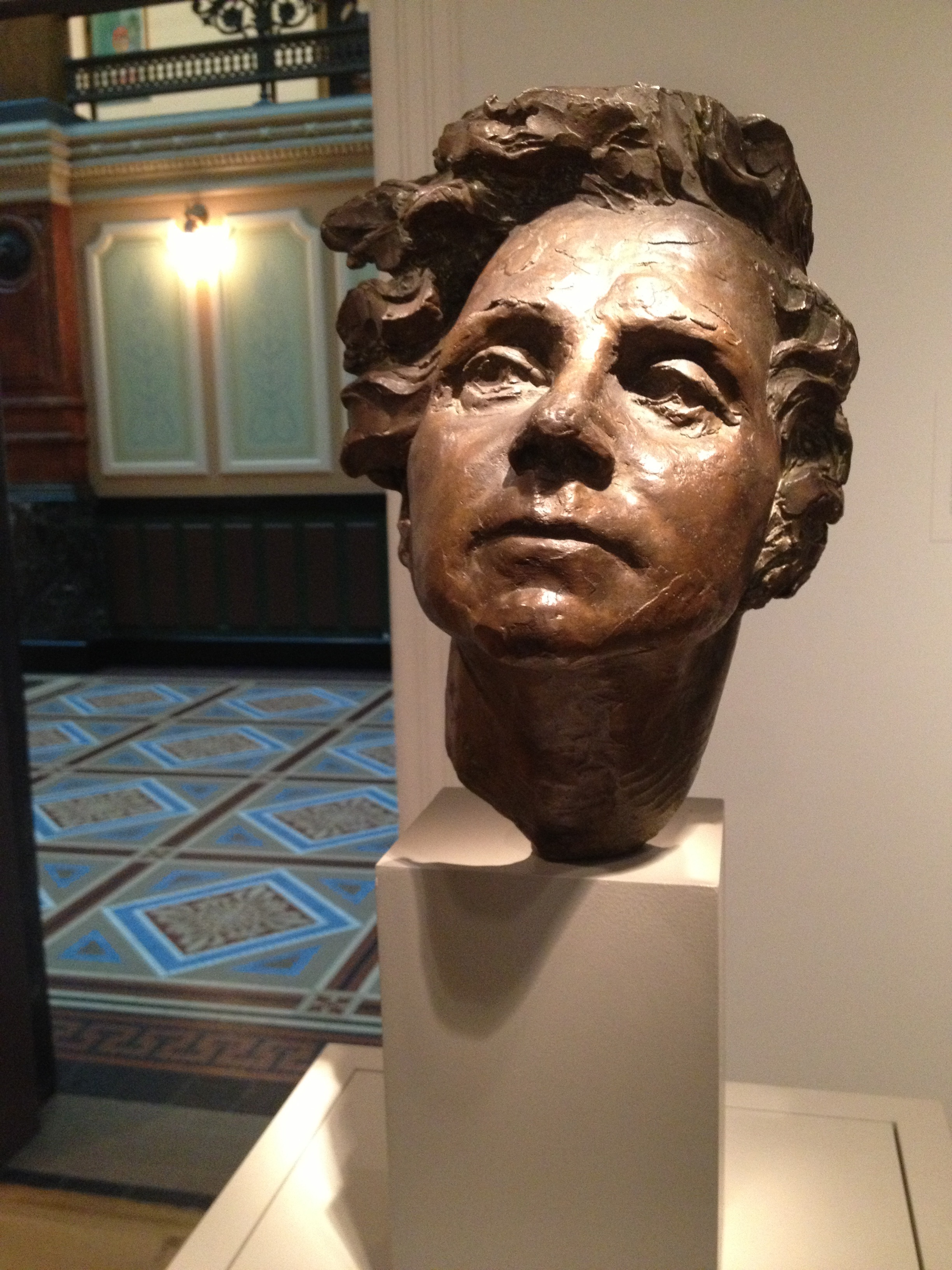 Bronze sculpture of Rachel Carson. Artist: Una Hanbury (1904-1990) Year: 1965